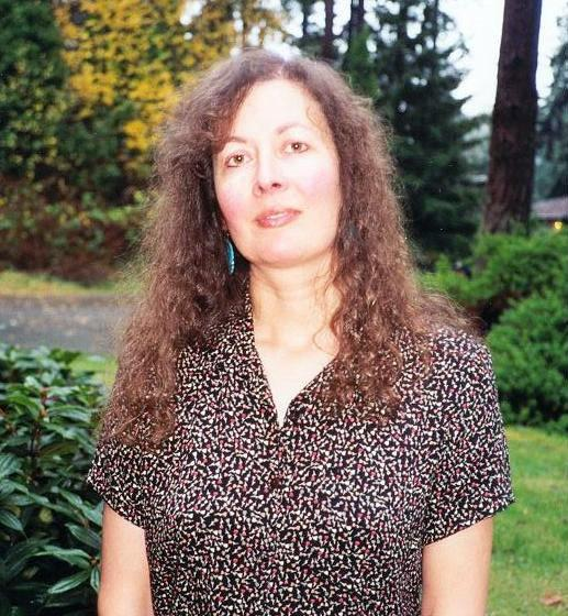 Photo of author Kathleen Alcala taken by spouse, Wayne C. Roth in 1999. Article on "Kathleen Alcala"